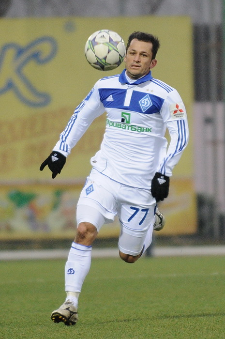 Carlos Correa players of brasil squad Dyamo Kiev